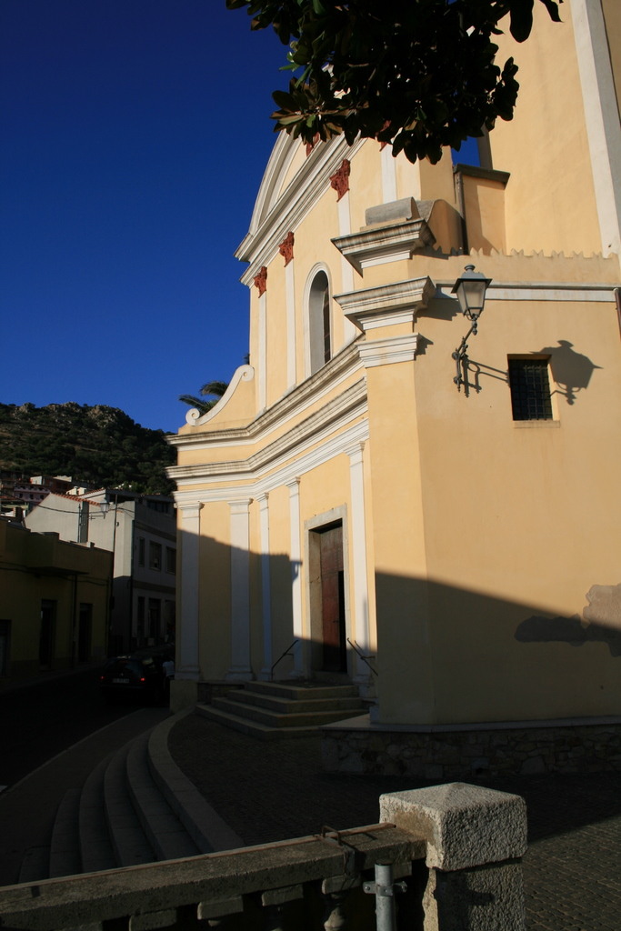 The San Sebastiano Church in Arbus Sardinia